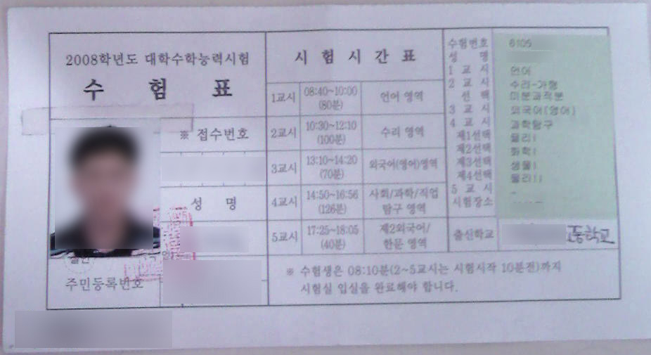 Testee's card of CSAT, a korean examination required to apply university